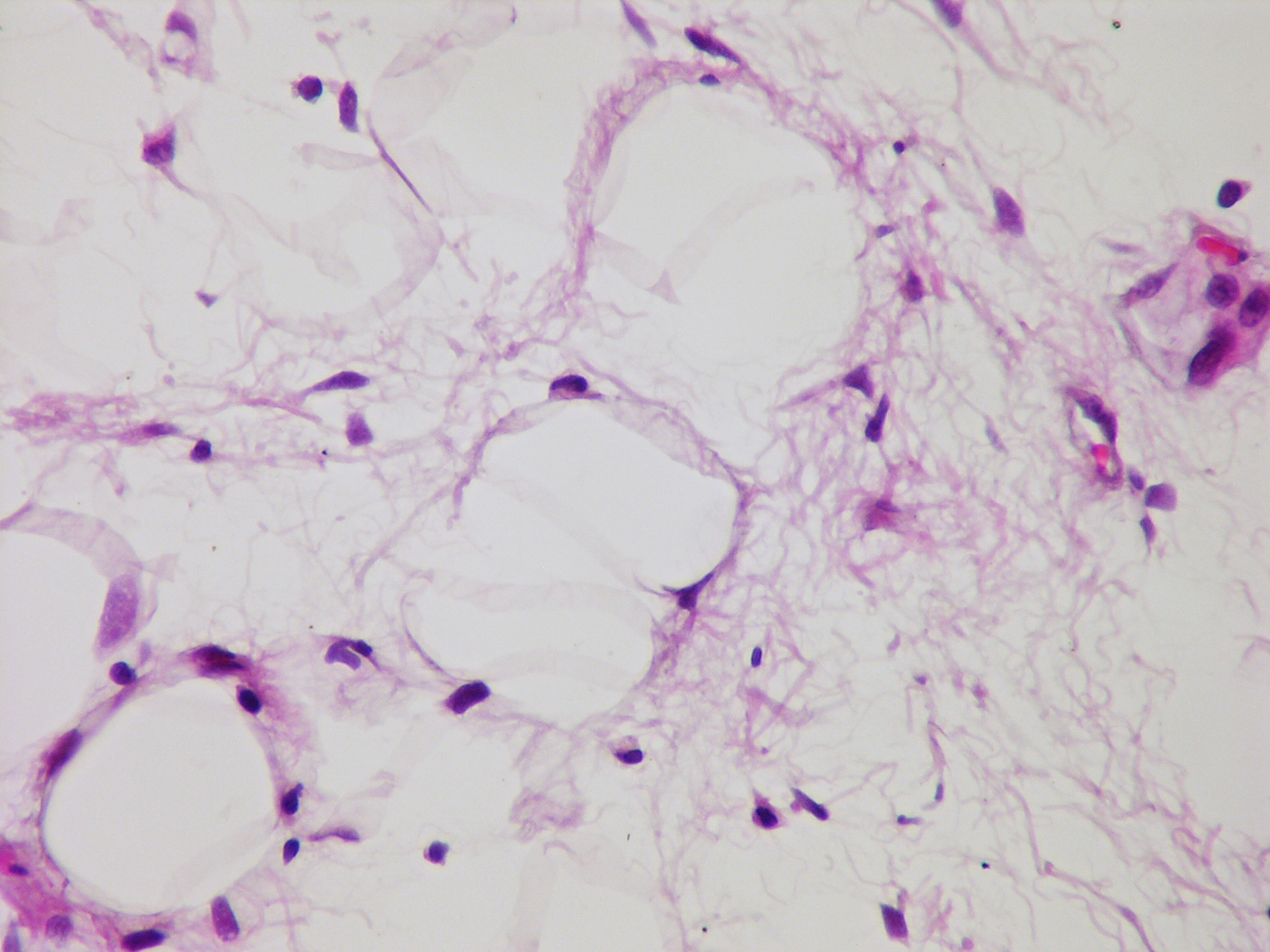 Needle core biopsy showing mature adipose tissue.